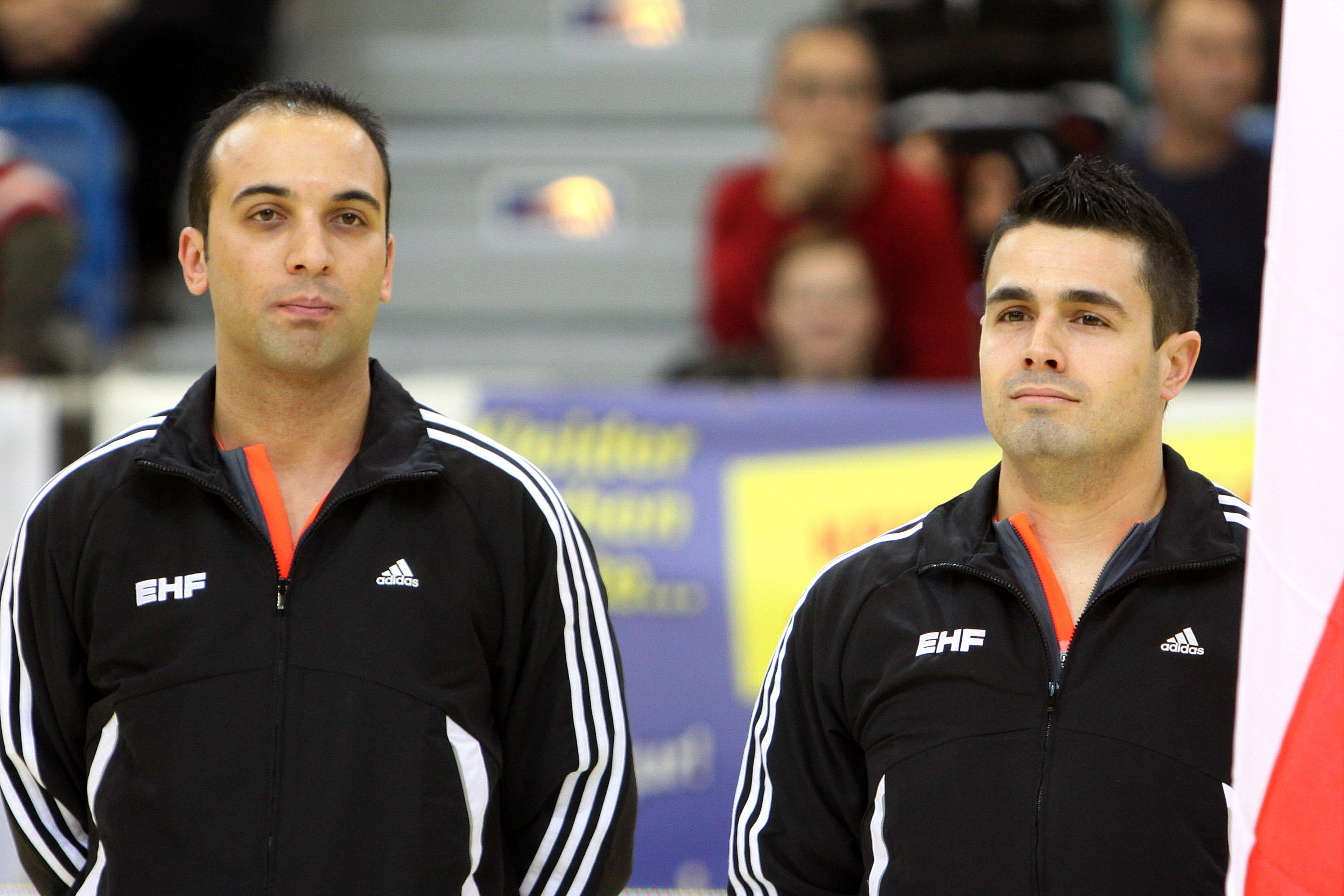 Ivan Cacador and Eurico Nicolau (Portugal), Referees of the 2010 European Men's Handball Championship